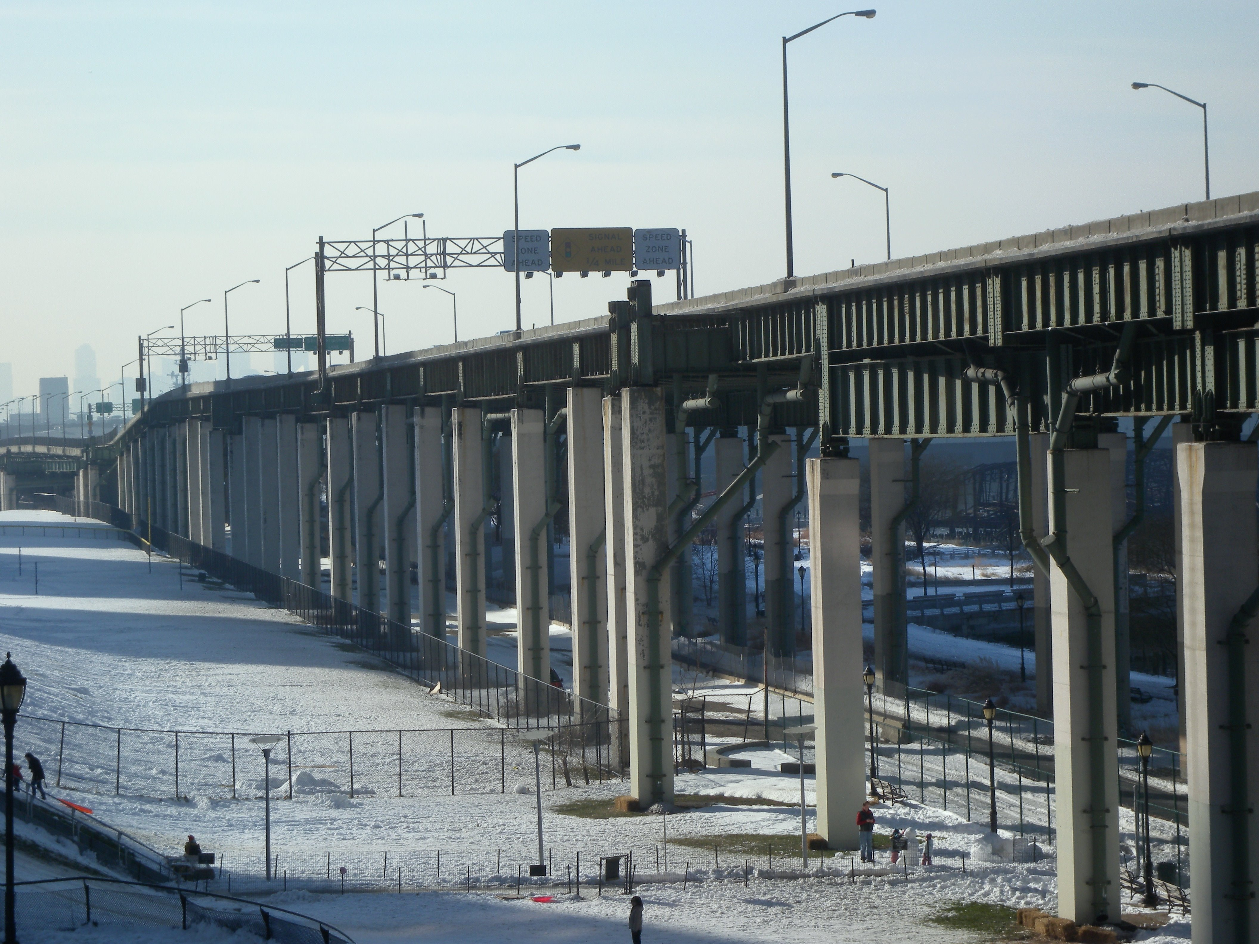 Looking southwest from Trump Riverside Boulevard overlook at Miller Highway descending towards Hell's Kitchen on a sunny morning after snowfall.